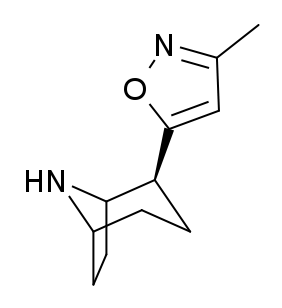 i drew this anyone can use it